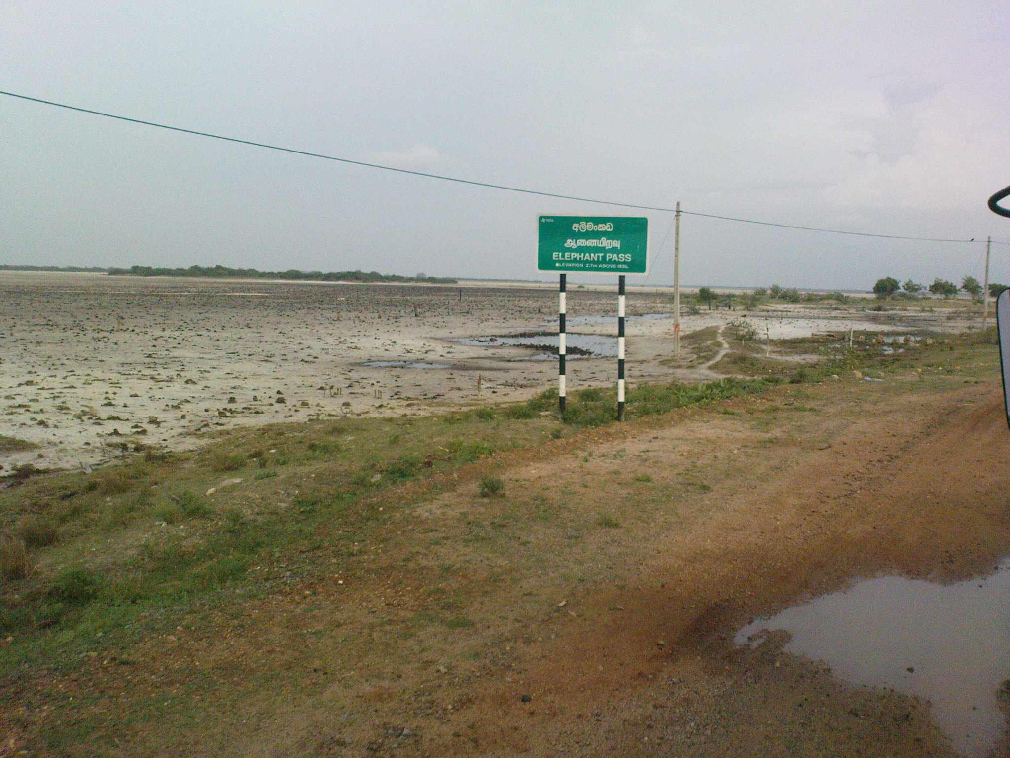 A photo of Chundikkulam Lagoon - Elephant Pass, taken at A9 highway. සිංහල: A9 මාර්ගයේ දී ගන්නා ලද, චුණ්ඩික්කුලම් කලපුවේ ඡායාරූපයක්